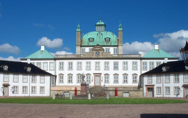 Fredensborg Castle seen from the main entrance and yard.